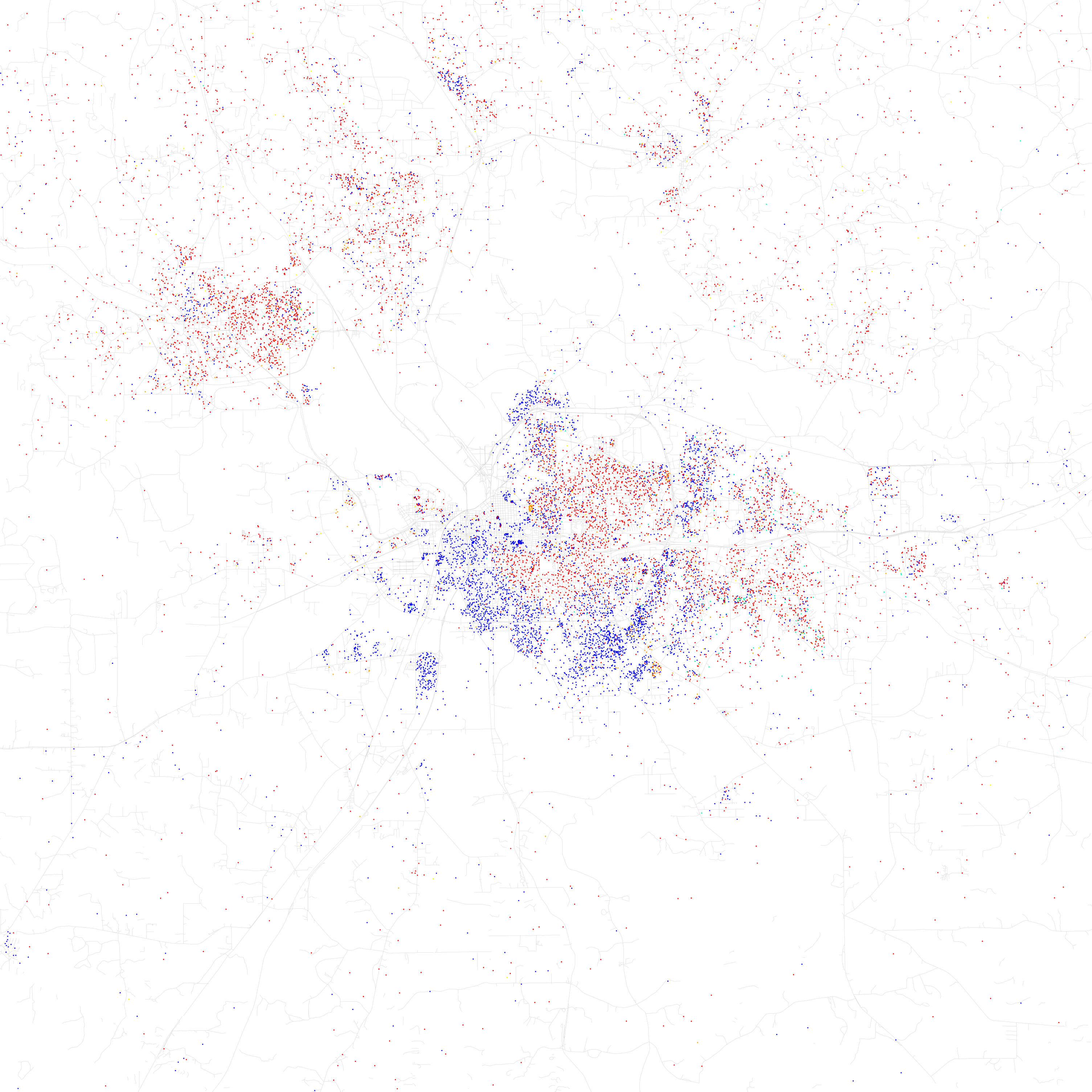 Maps of racial and ethnic divisions in US cities, inspired by Bill Rankin's map of Chicago, updated for Census 2010. Red is White, Blue is Black, Green is Asian, Orange is Hispanic, Yellow is Other, and each dot is 25 residents. Data from Census 2010. Base map © OpenStreetMap, CC-BY-SA